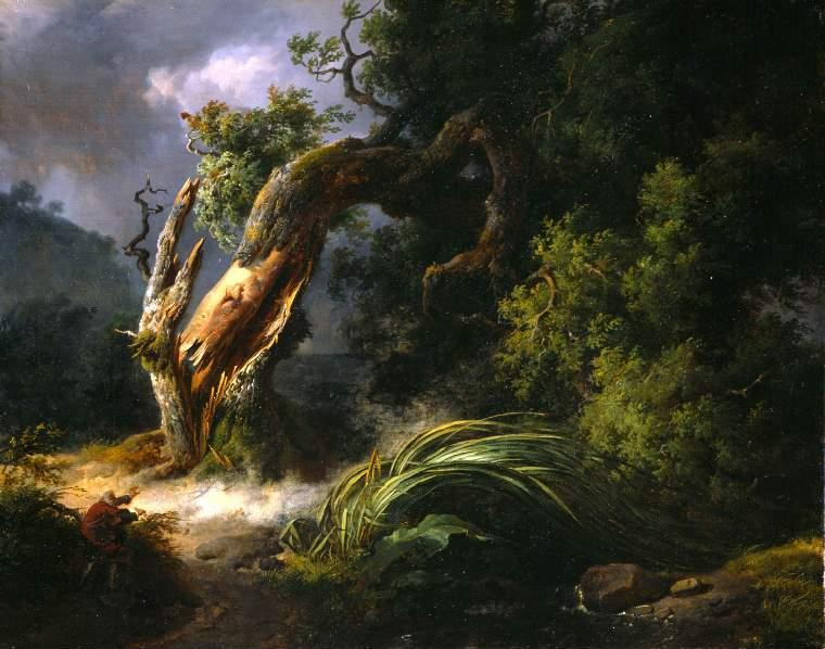 Painting based on La Fontaine's fable Le Chêne et le Roseau (The Oak and the Reed).